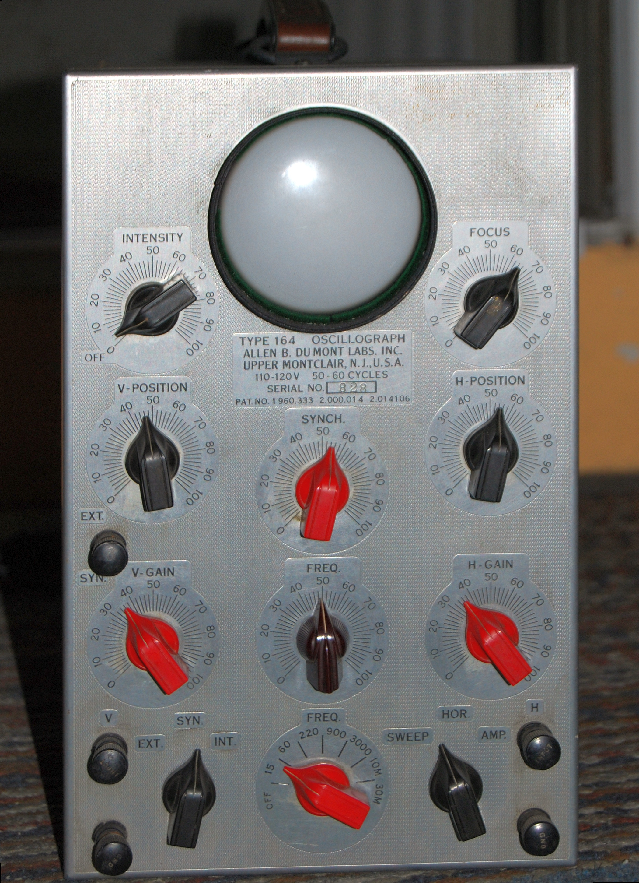 DuMont was a leading manufacturer of cathode ray tubes and oscilloscopes (oscillographs) from the 1930's until the mid 1950's.